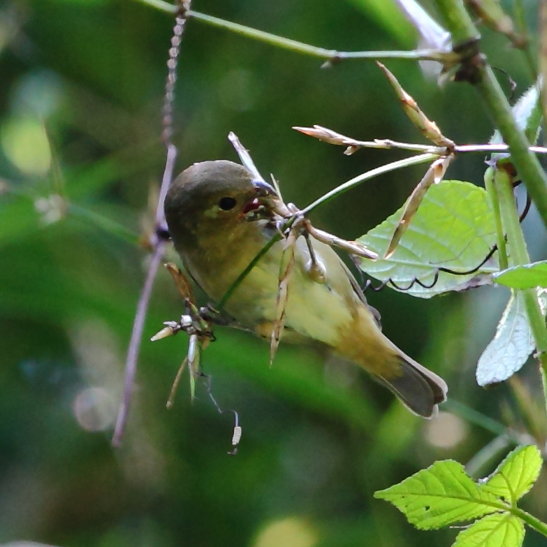 Temminck's Seedeater (Female) at Intervales State Park - SP - Brazil